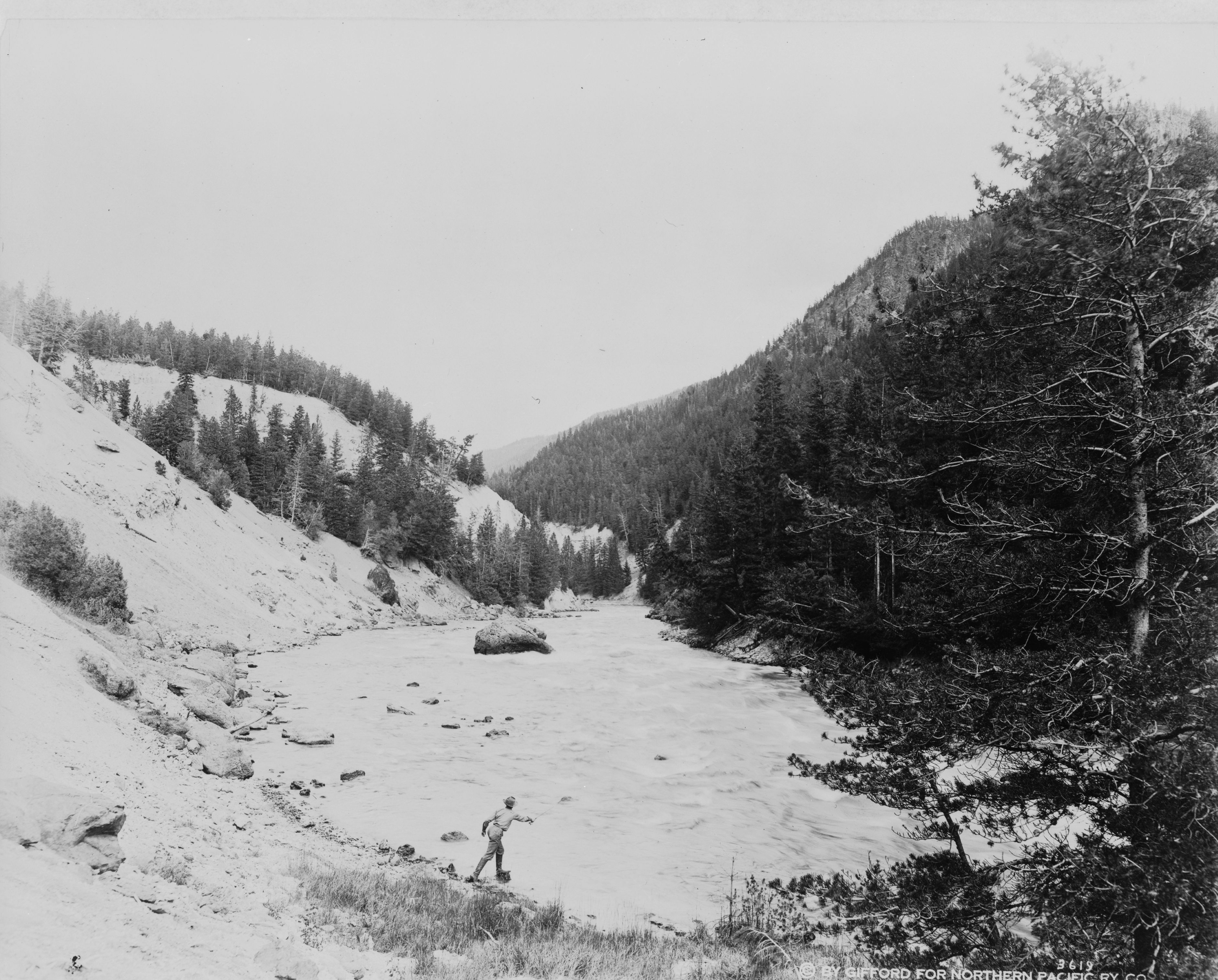 Man fishing in the Yellowstone River in Yellowstone National Park near Gardiner, Montana